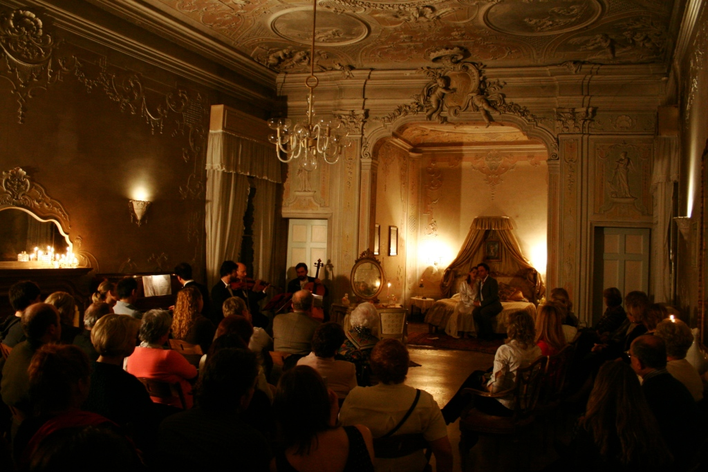 A view of the Alcove and Bedroom in Palazzo Barbarigo-Minotto, during a performance of Verdi's "Traviata", by Musica a Palazzo.